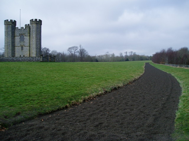 Training Gallops, Arundel Park Hiorne Tower was one of the locations used in 1988 for the Doctor Who episode "Silver Nemesis".